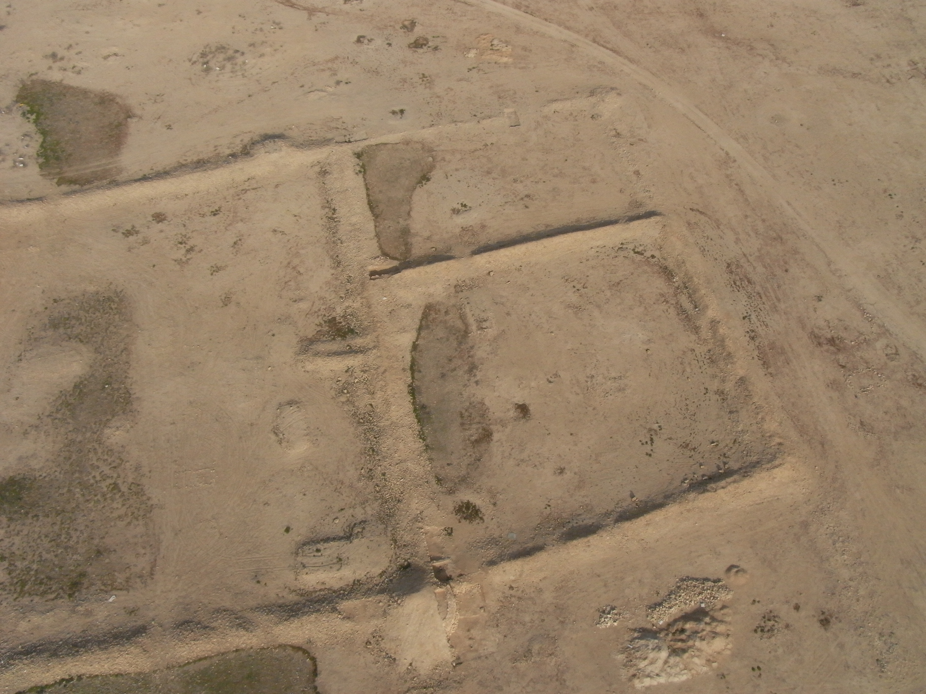 Al Ruwaydah archaeological site in Qatar.